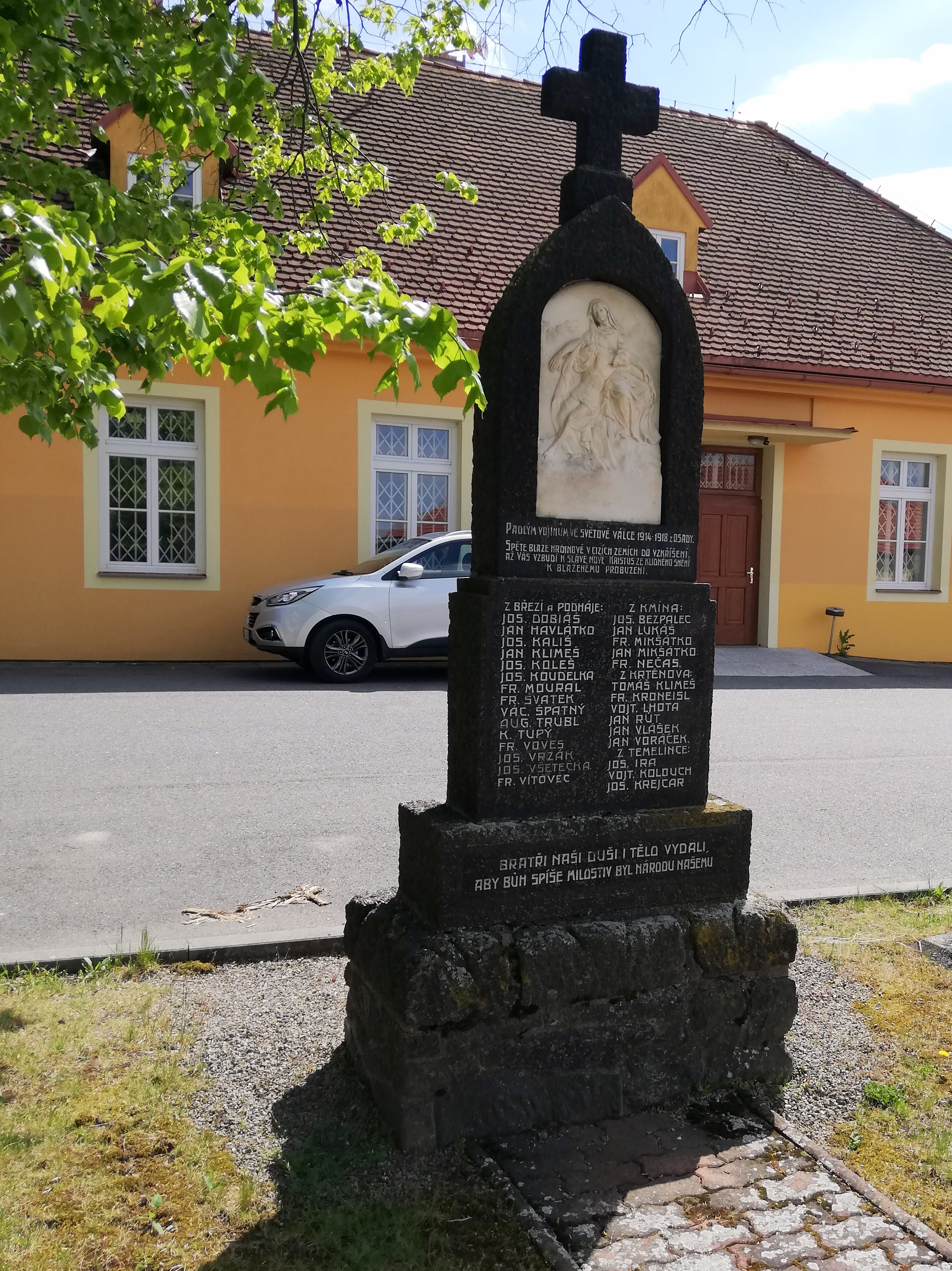 Křtěnov (Temelín), a monument to parishioners who fell in the First World War